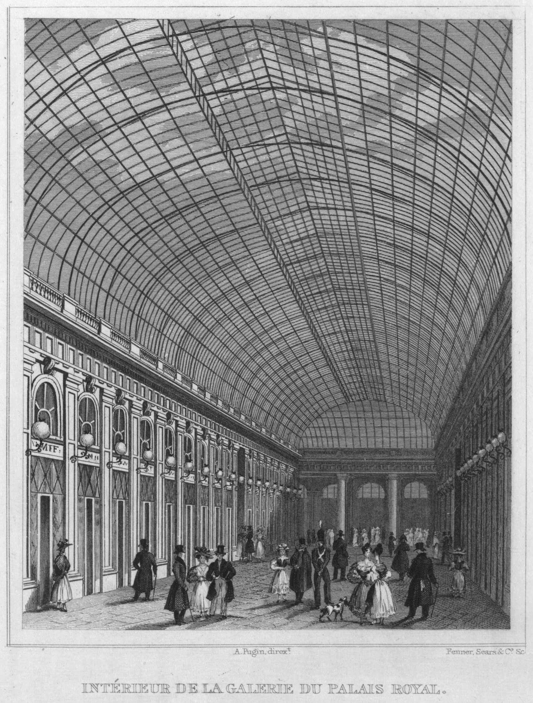 The popularity of the Galeries of the Palais Royal dates back to the late eighteenth century, when Parisians visited the arcades at all hours in search of entertainment. Remaining open until 2 in the morning, the Galeries featured circus-like attractions, in addition to 180 boutiques. In an attempt to rid the garden of prostitutes and criminals, Louis-Philippe orchestrated the closing of a portion of the arcades in 1828, and opened the Galerie d'Orléans in 1830, shown here. Its cover consisted of a glass roof and it was said to be the most architecturally spectacular of all of the arcades at the time. The structure's impressive combination of iron and glass, of classical yet advanced styles, is testimony to its architectural depth and complexity that influenced the construction of other arcades in Europe. However, due to its relatively poor location and competition with other arcades, the Galerie d'Orléans was one of the least successful arcades of the nineteenth century. It was partially demolished in 1935 in an attempt to restore life to the Palais-Royal, leaving an open courtyard in the first arrondissement.